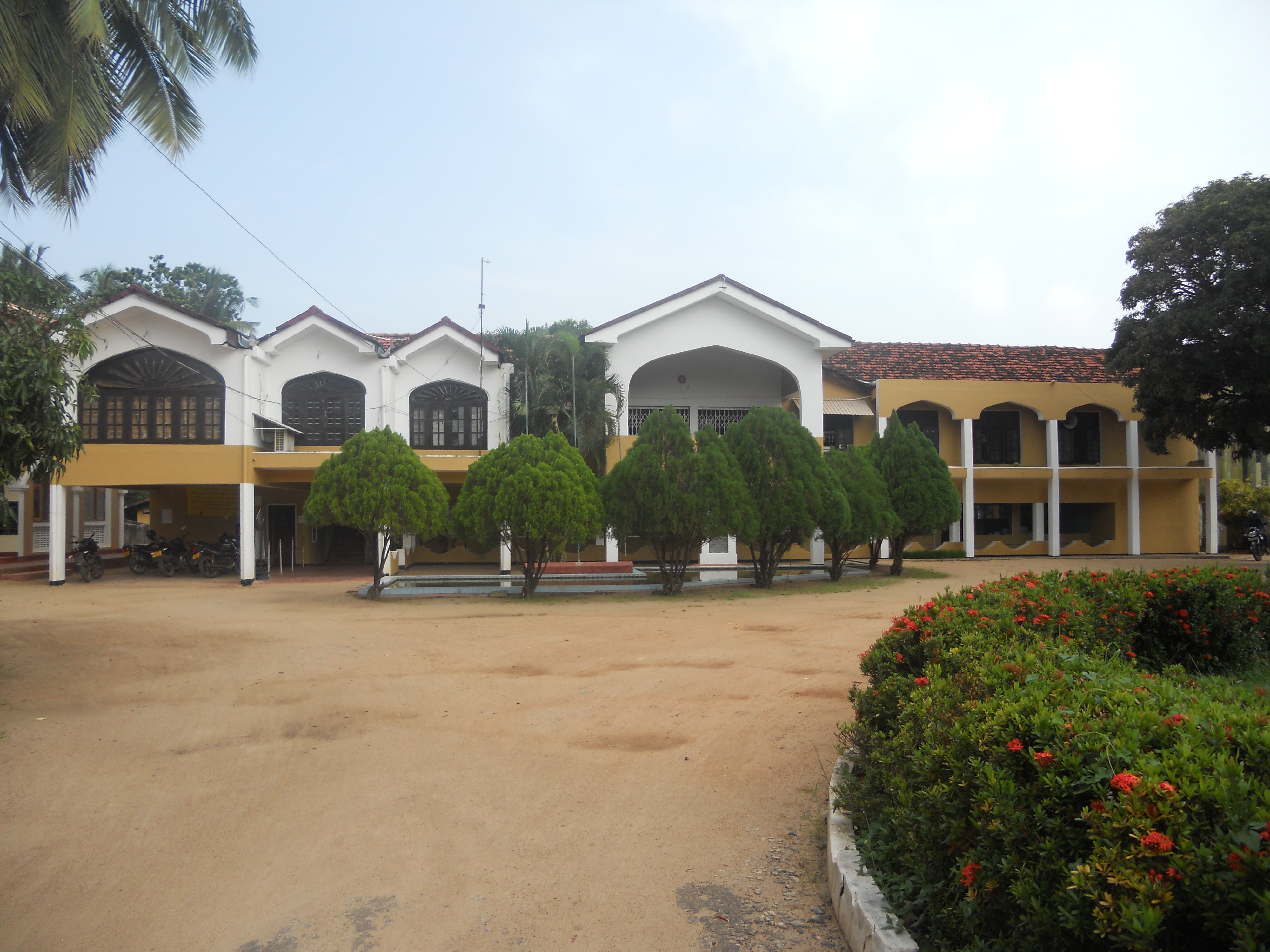 Office Block Addalaichenai MMV